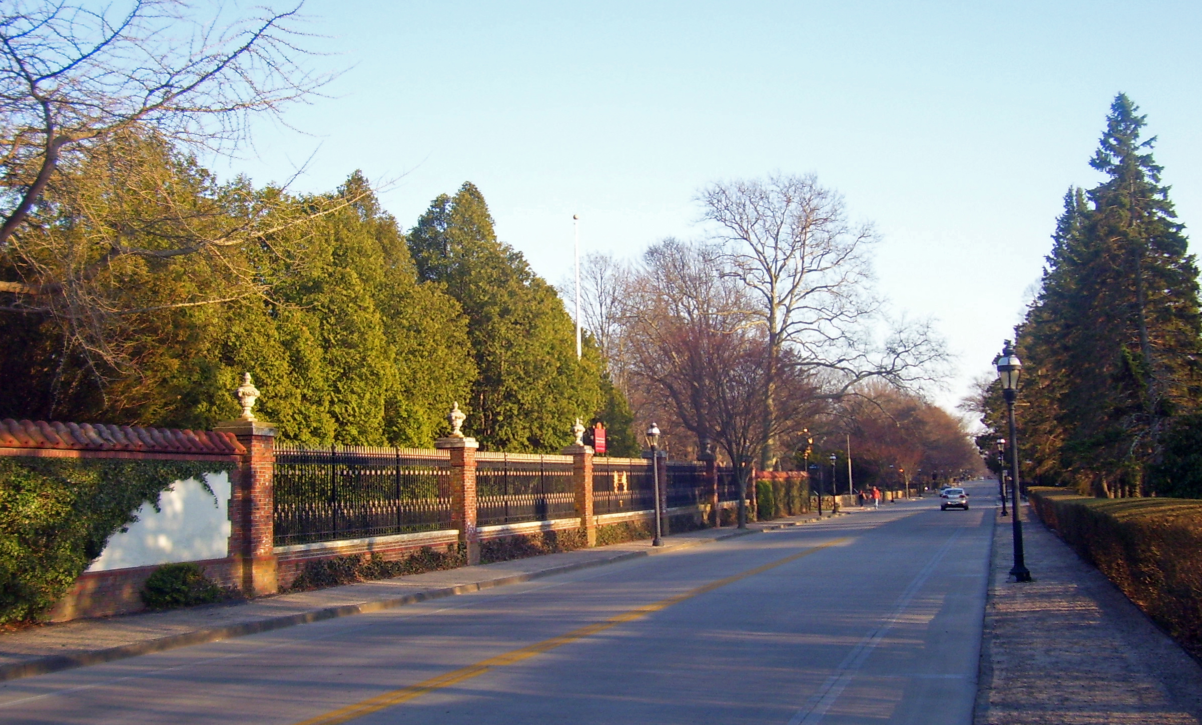 View south down Bellevue Avenue in front of Vernon Court in Newport, RI, USA.